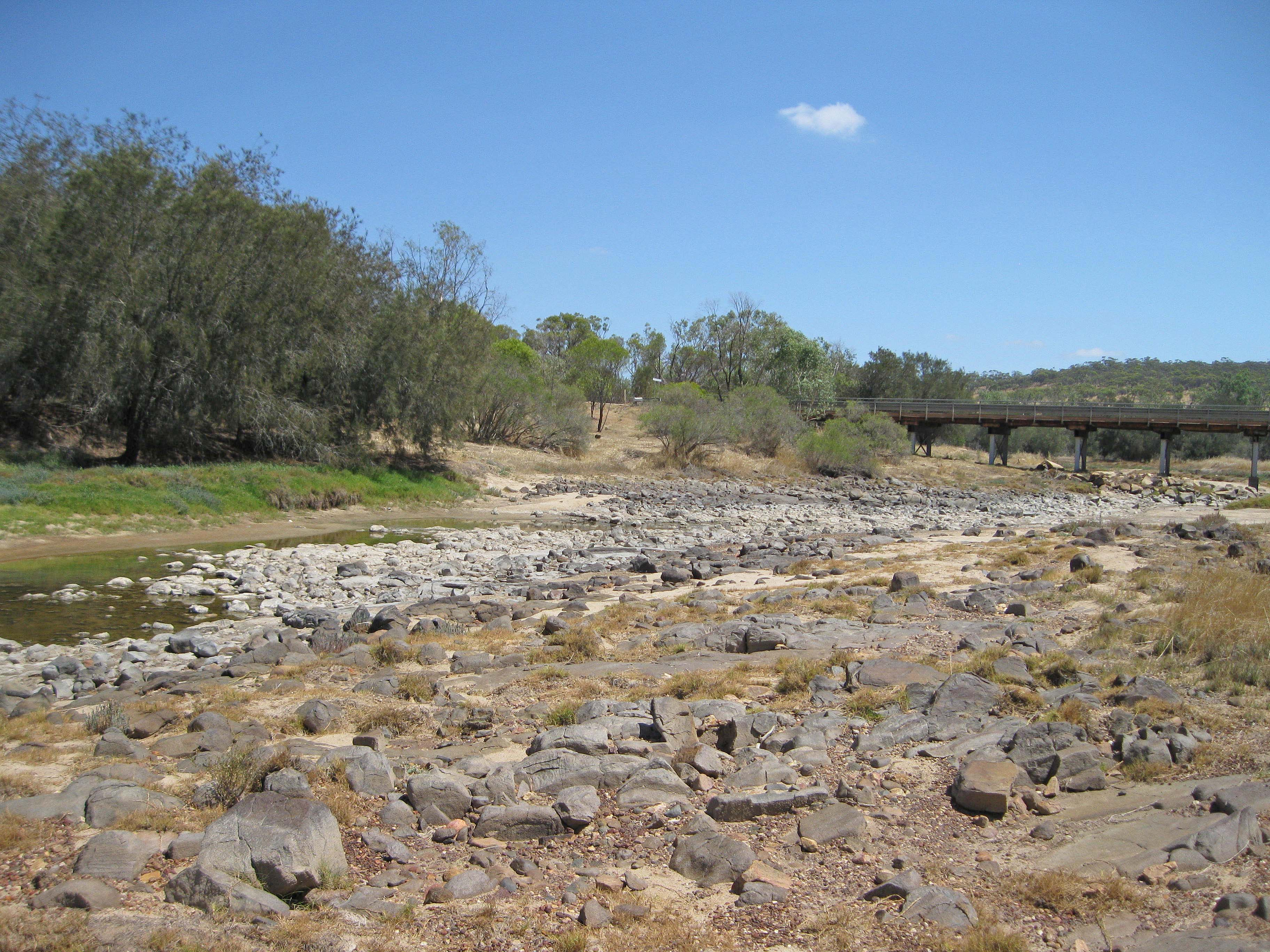 The natural rock ford crossing of the Avon River at West Toodyay, Western Australia. 2015